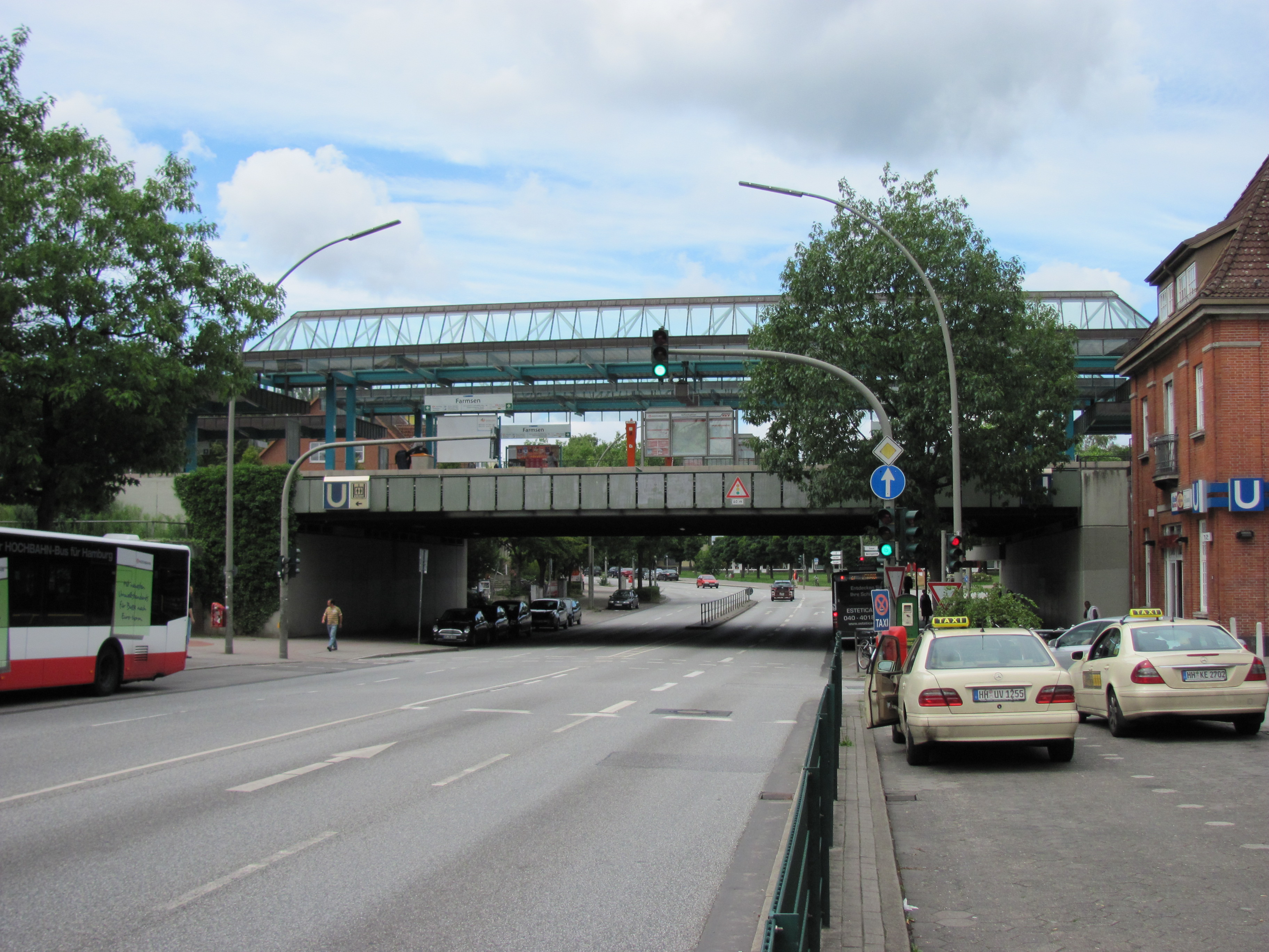 U-Bahn station Farmsen in Hamburg, Germany